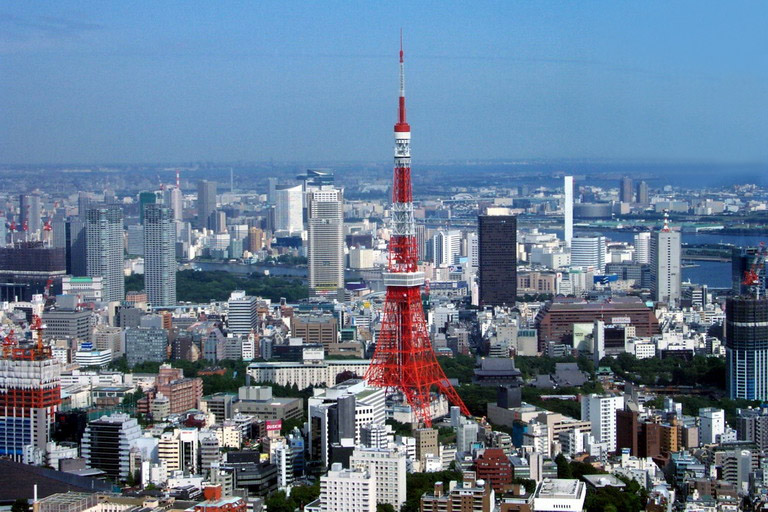 World's tallest self-supporting steel tower.